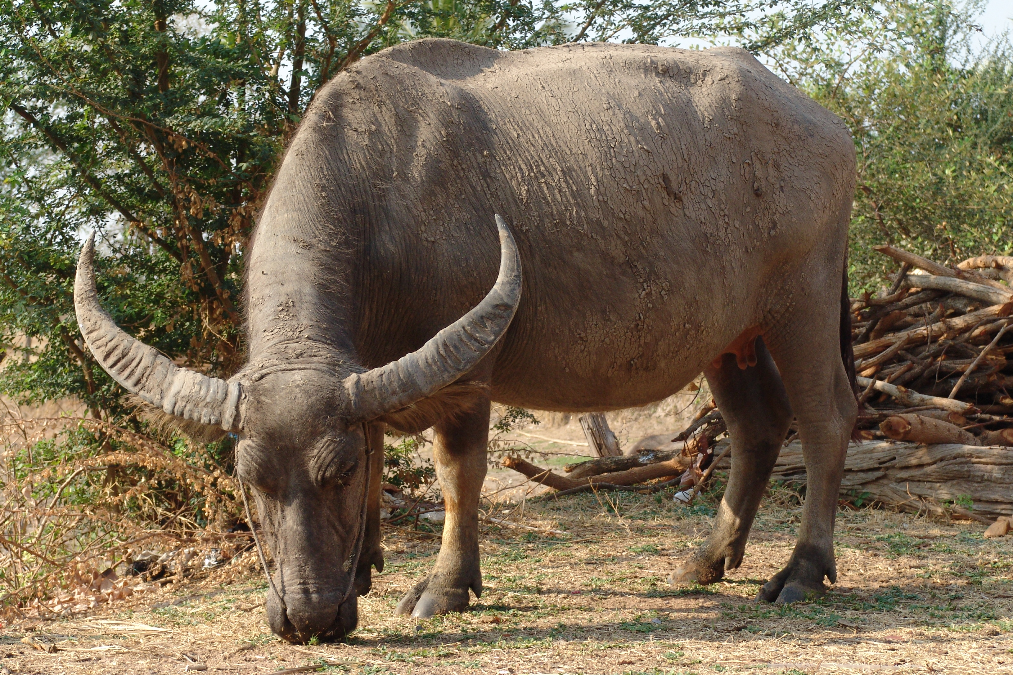 Water buffalo (Bubalus bubalis), Thailand.